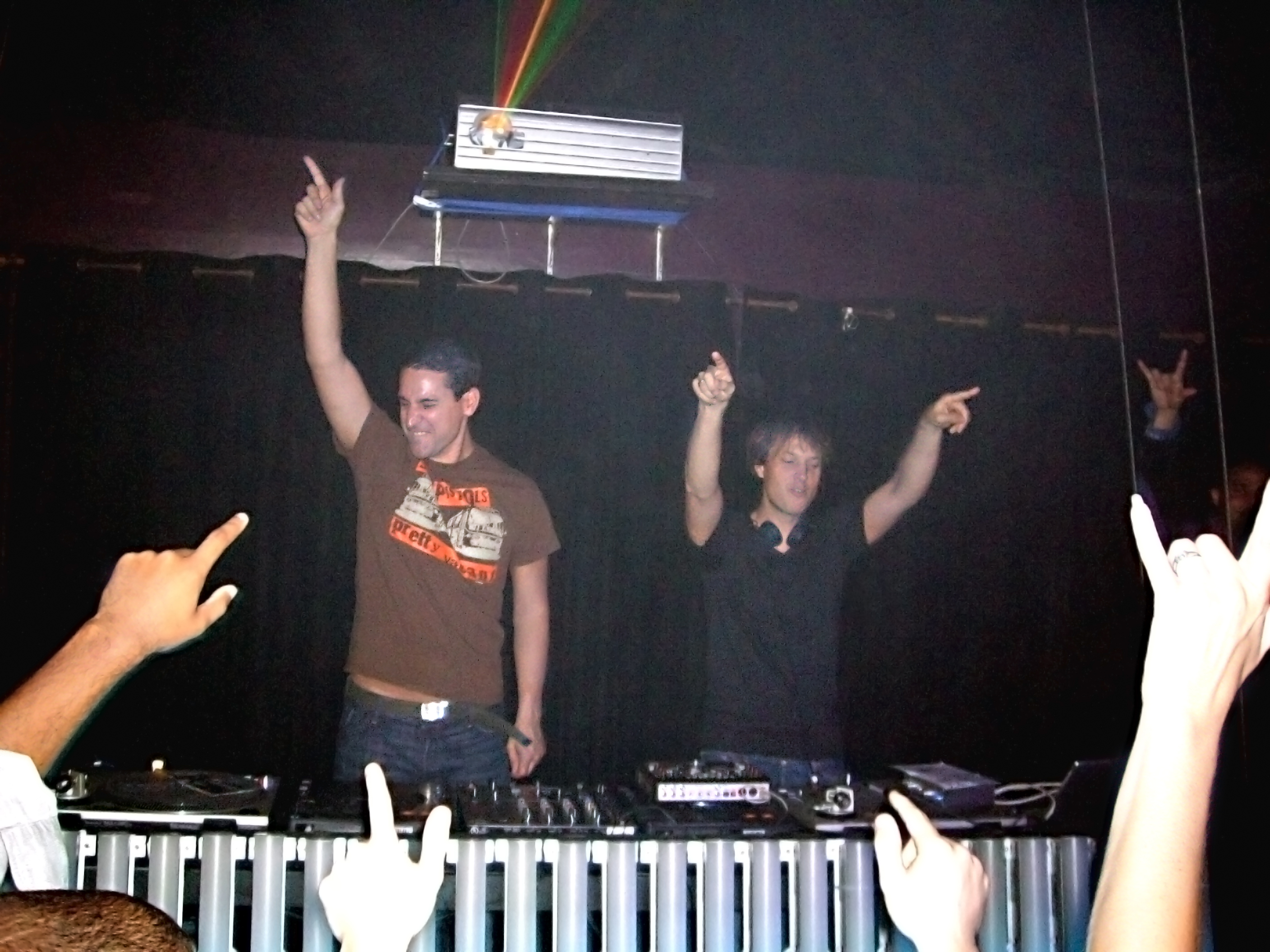 Blank and Jones performing in Washington D.C., 2006.